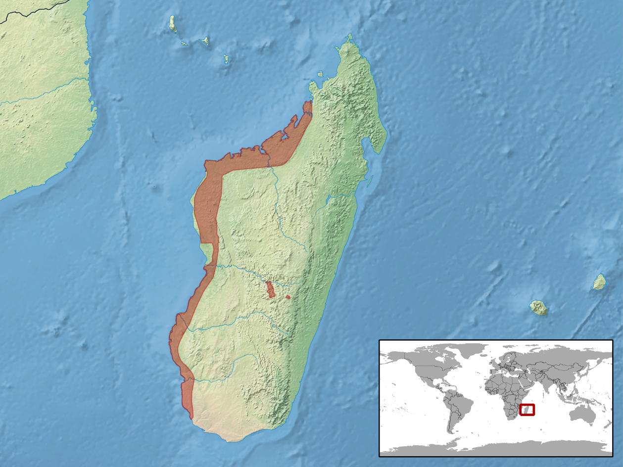 geographic distribution of Lygodactylus tolampyae (Native: Madagascar)